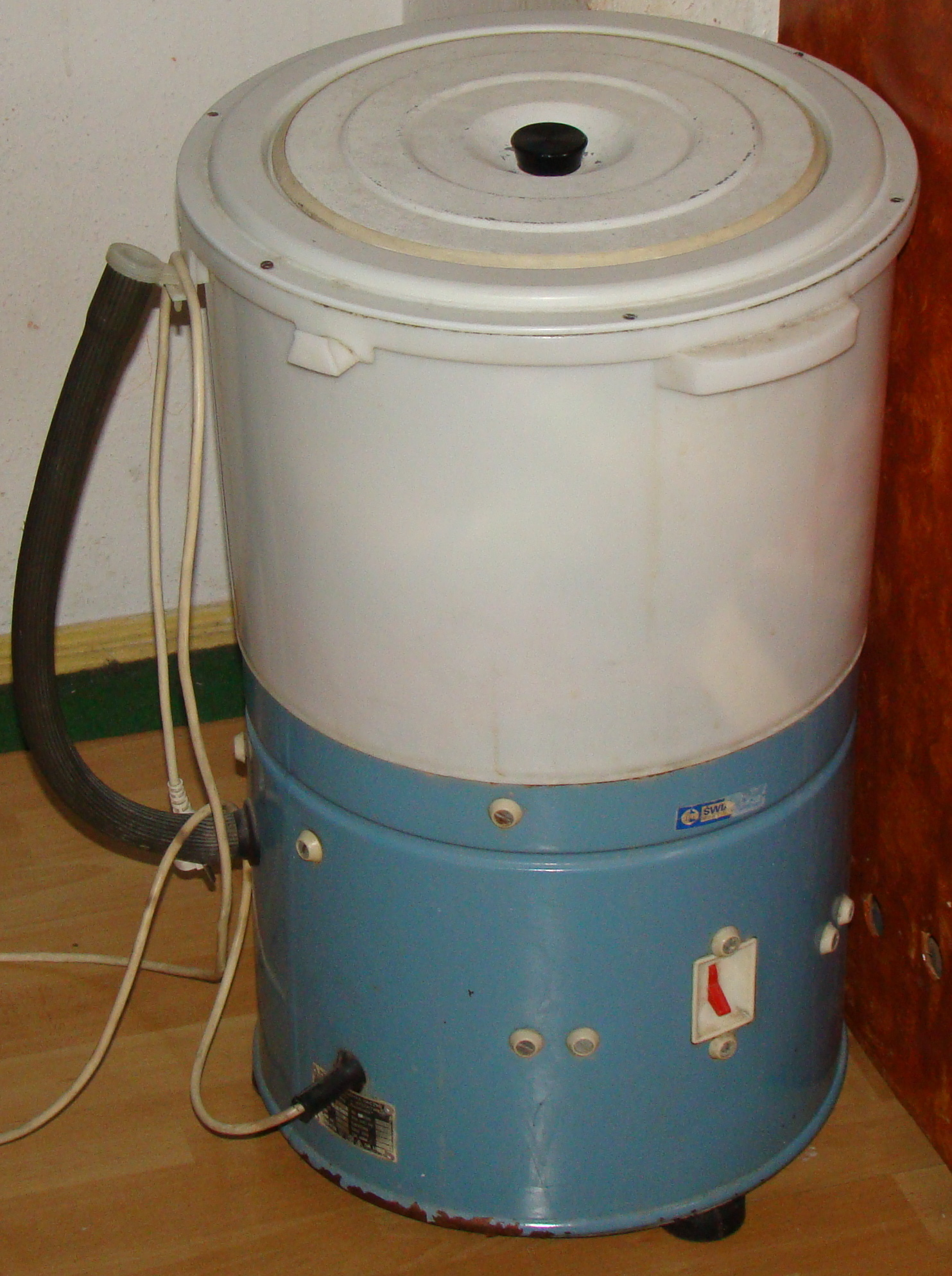 Washing machine